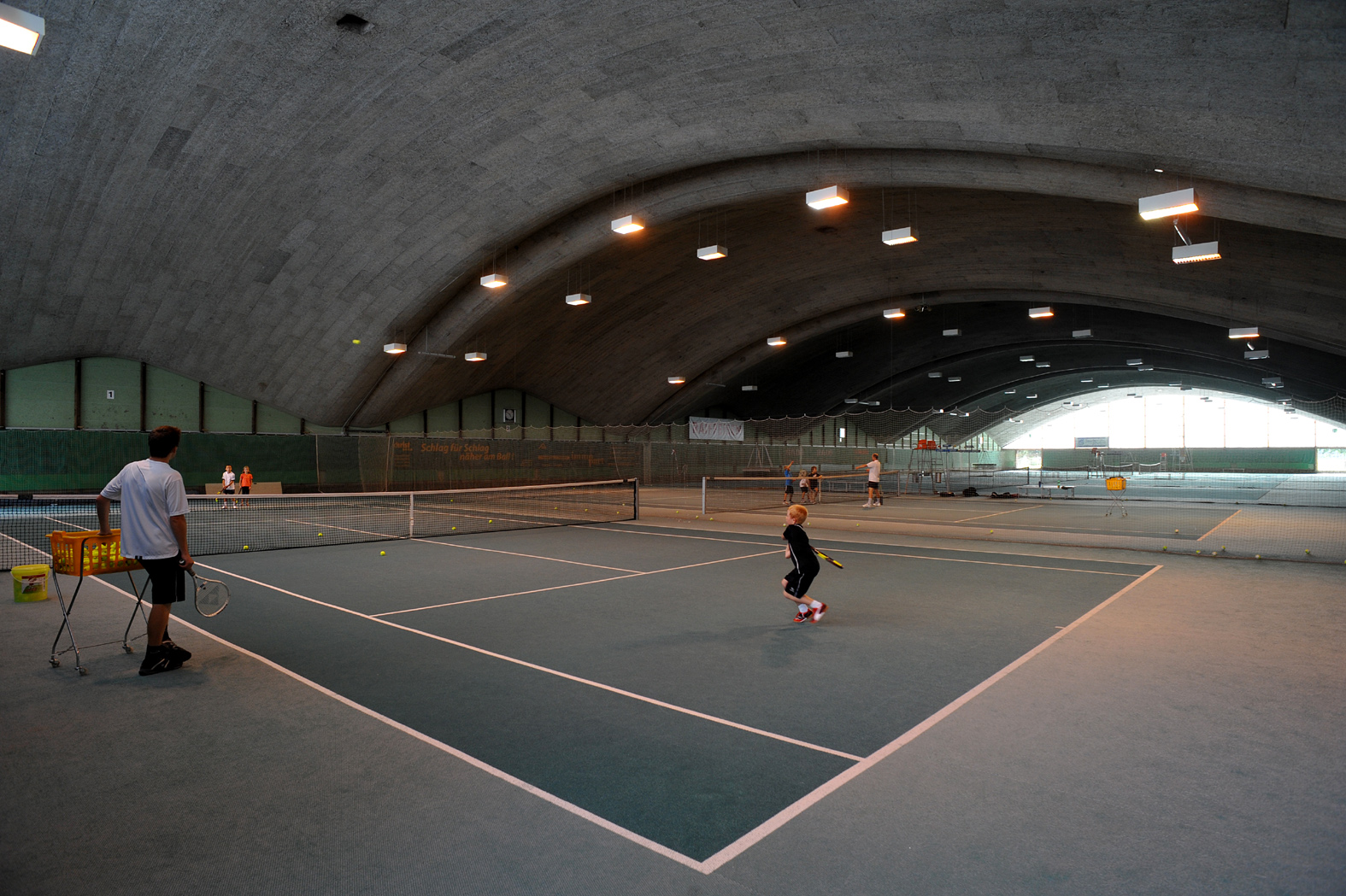 Concrete shell roof (Isler shell) of the tennis centre near the airport in Grenchen, built 1978; Solothurn, Switzerland.